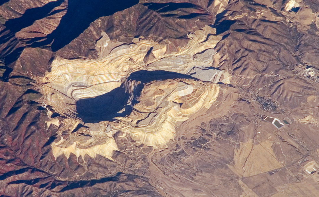 NASA image of The Bingham Canyon Mine: one of the largest open-pit mines in the world, measuring over 4 kilometers wide and 1,200 meters deep. Located about 30 kilometers southwest of Salt Lake City, Utah